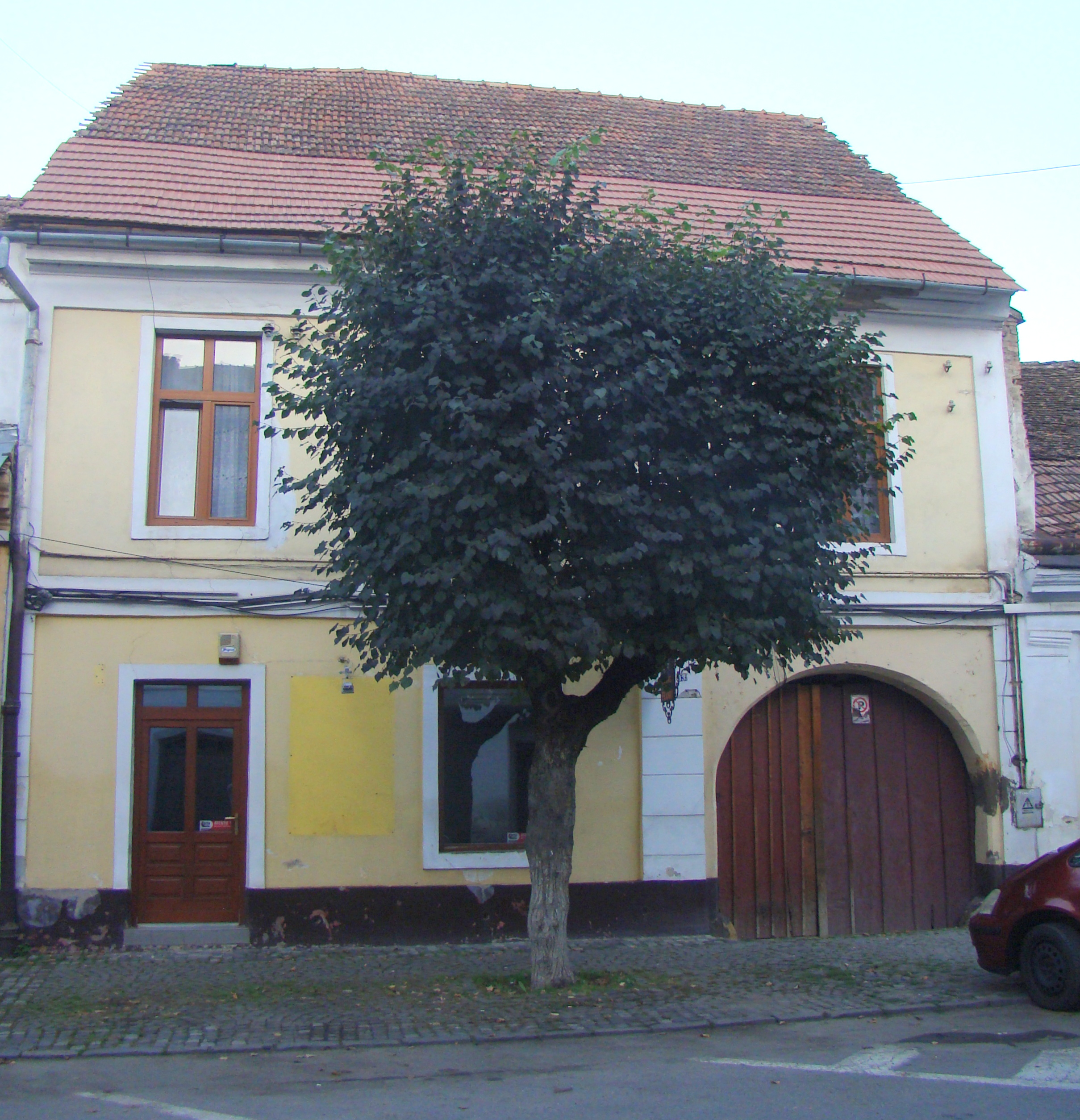 House, historic monument, in Bistrița, Nicolae Titulescu street 33